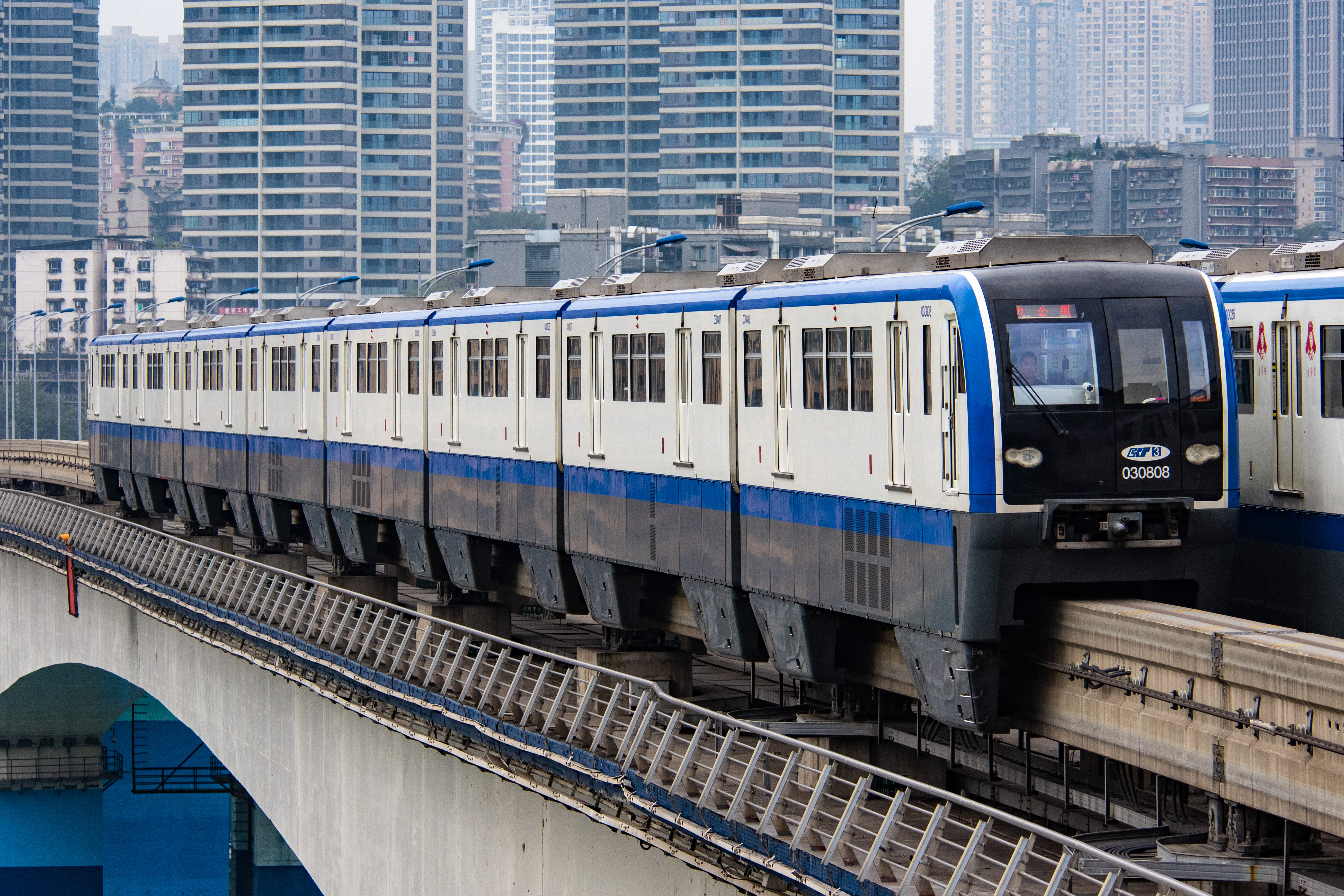 8-car train ending at Jiugongli (lit. K9).